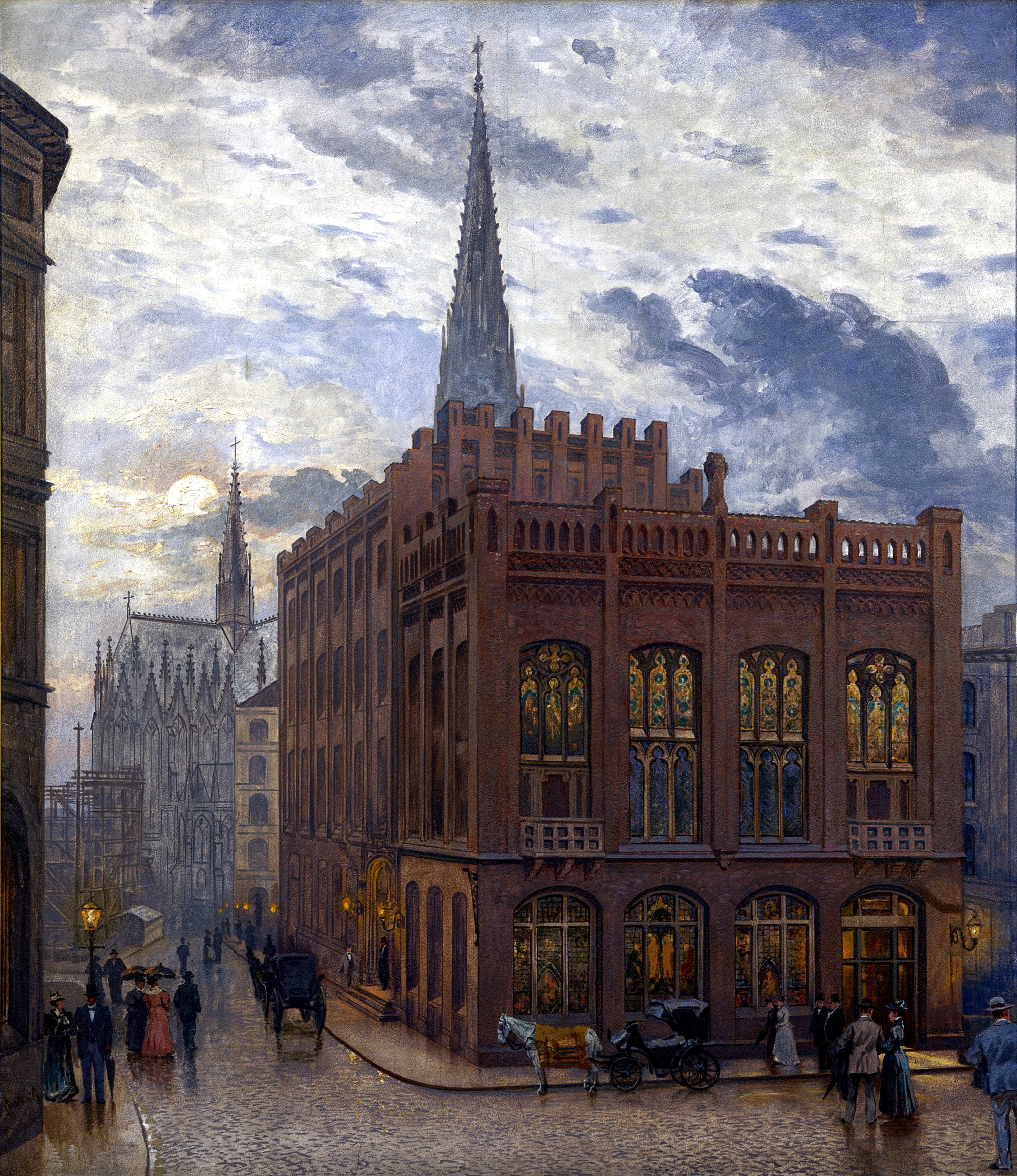 This is a photograph of an architectural monument.